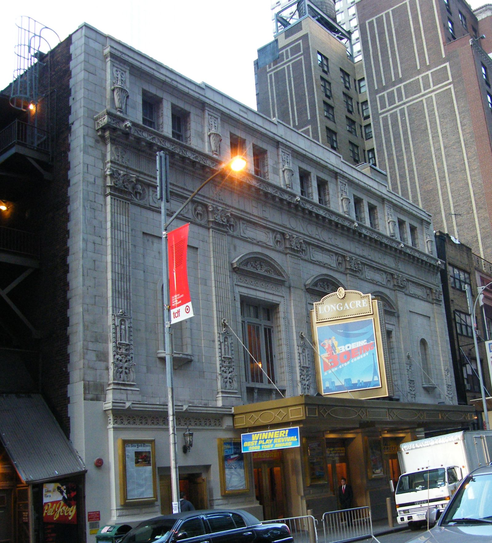 Longacre Theatre